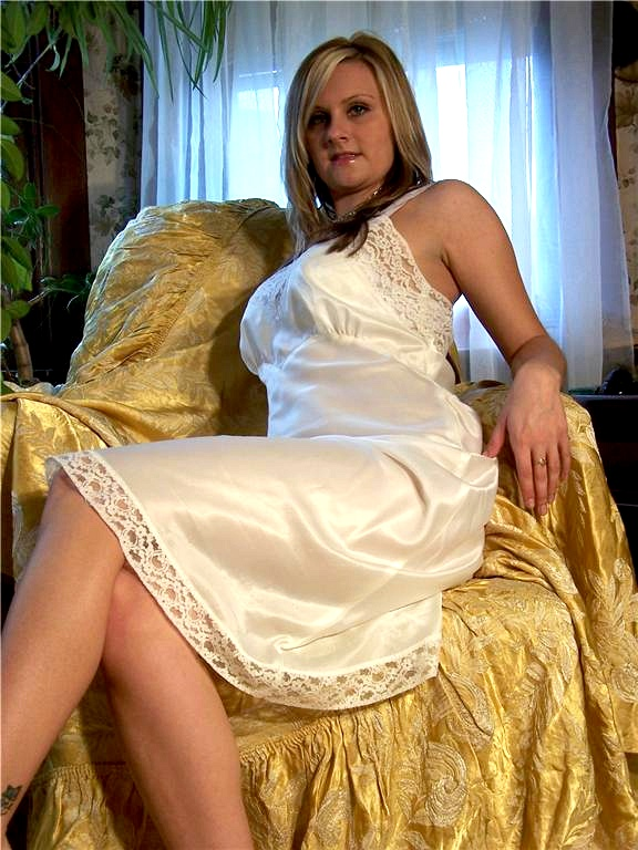 Woman wearing cream-coloured full slip